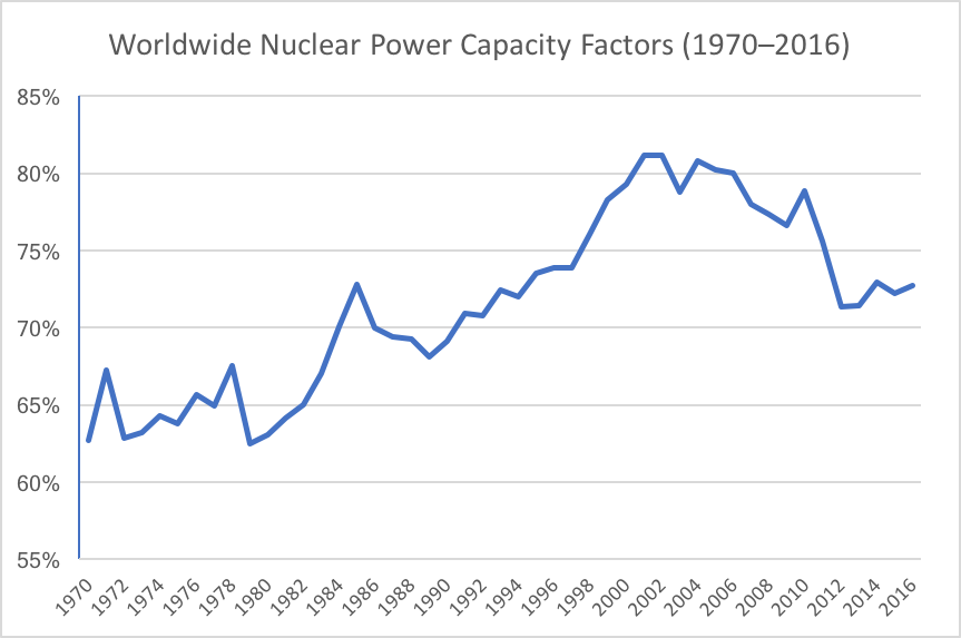 This is a graph of averaged yearly capacity factors from 1970 through 2016 for all 670 reactors in the International Atomic Energy Agency (IAEA) Power Reactor Information System (PRIS) database. While the PRIS database does not track any metric called the "capacity factor", it does track a metric called the "load factor", which is generally considered to be directly equivalent to the capacity factor, and is what is graphed here. All data was obtained from the PRIS website via web scraping, manipulated via a Ruby script into a usable CSV format, then imported into, explored via, and ultimately graphed in Excel. No usable global-level data was available prior to 1970, and no data has been released for 2017 yet, so this image contains all available data on nuclear capacity factors. The slump in capacity factors starting after 2010 is solely due to Japan's precautionary shutdown of all nuclear reactors following the Fukushima Daiichi incident - PRIS still considers all of Japan's reactors to still be operable (and is still computing annual performance data for them), which is severely distorting the performance data for the rest of the world's nuclear fleet. When Japan's reactors are eliminated from the dataset, the slump in capacity factors post-2010 vanishes entirely.